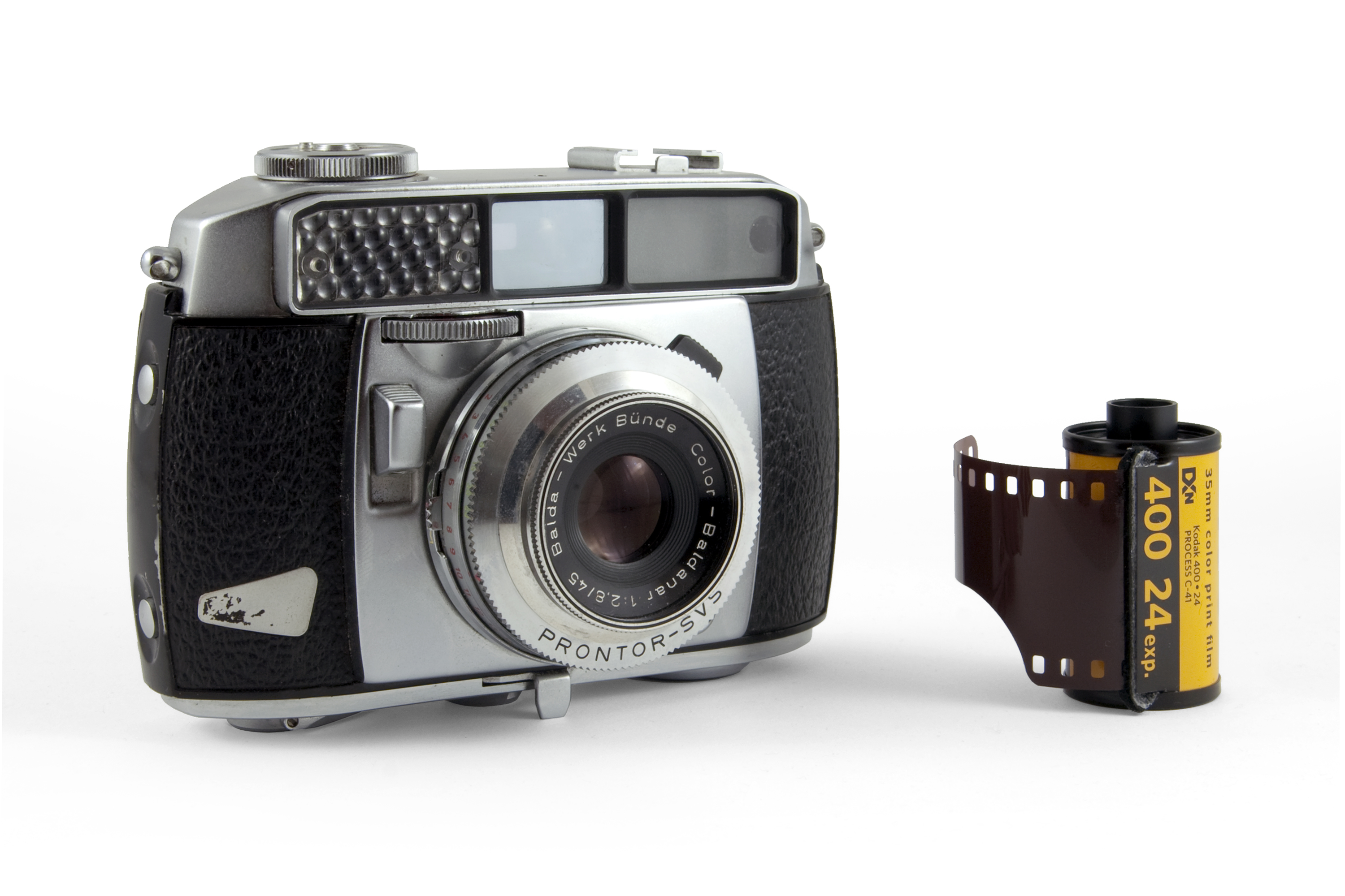 A Baldessa 1b 35mm camera from Balda, with film for scale. The Baldessa 1b had an uncoupled but built-in selenium light meter with a coupled rangefinder